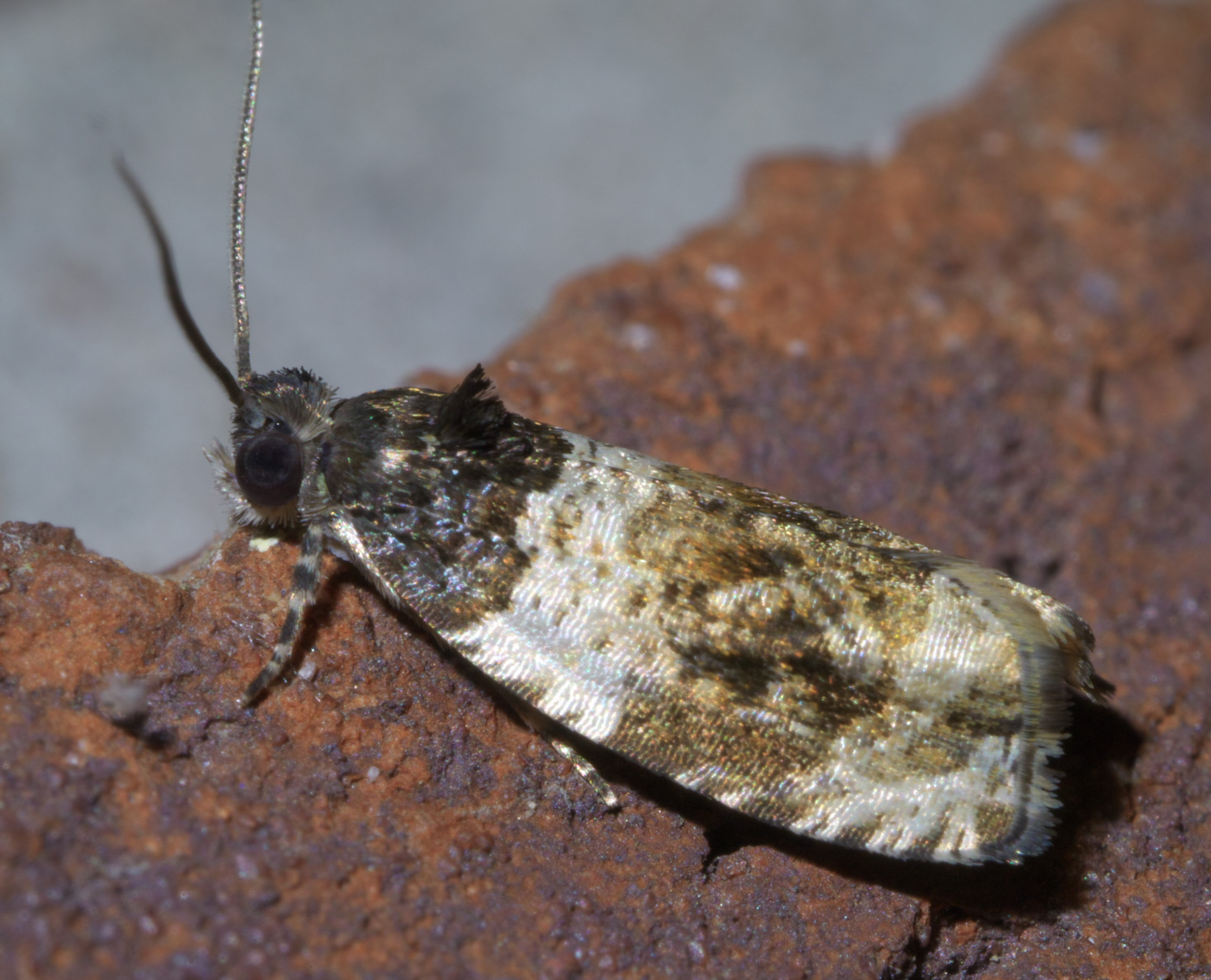 Olethreutes fasciatana, banded olethreutes, Size: 8.2 mm, ID Confidence: 88